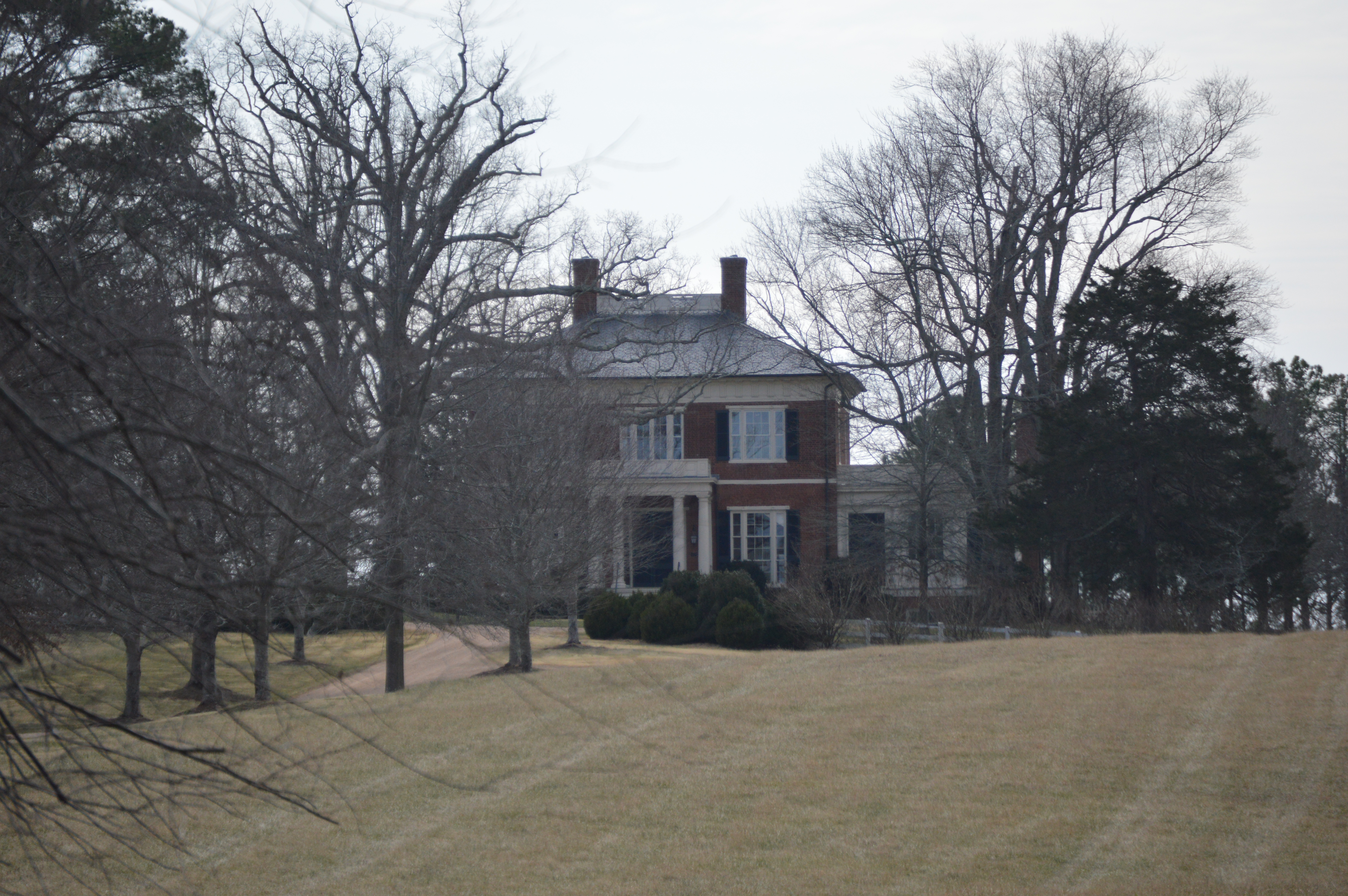 Front of the main house at the Esmont estate, located off Esmont and Alberene Roads north of the community of Esmont in Albemarle County, Virginia, United States. Built in 1818, it is listed on the National Register of Historic Places.